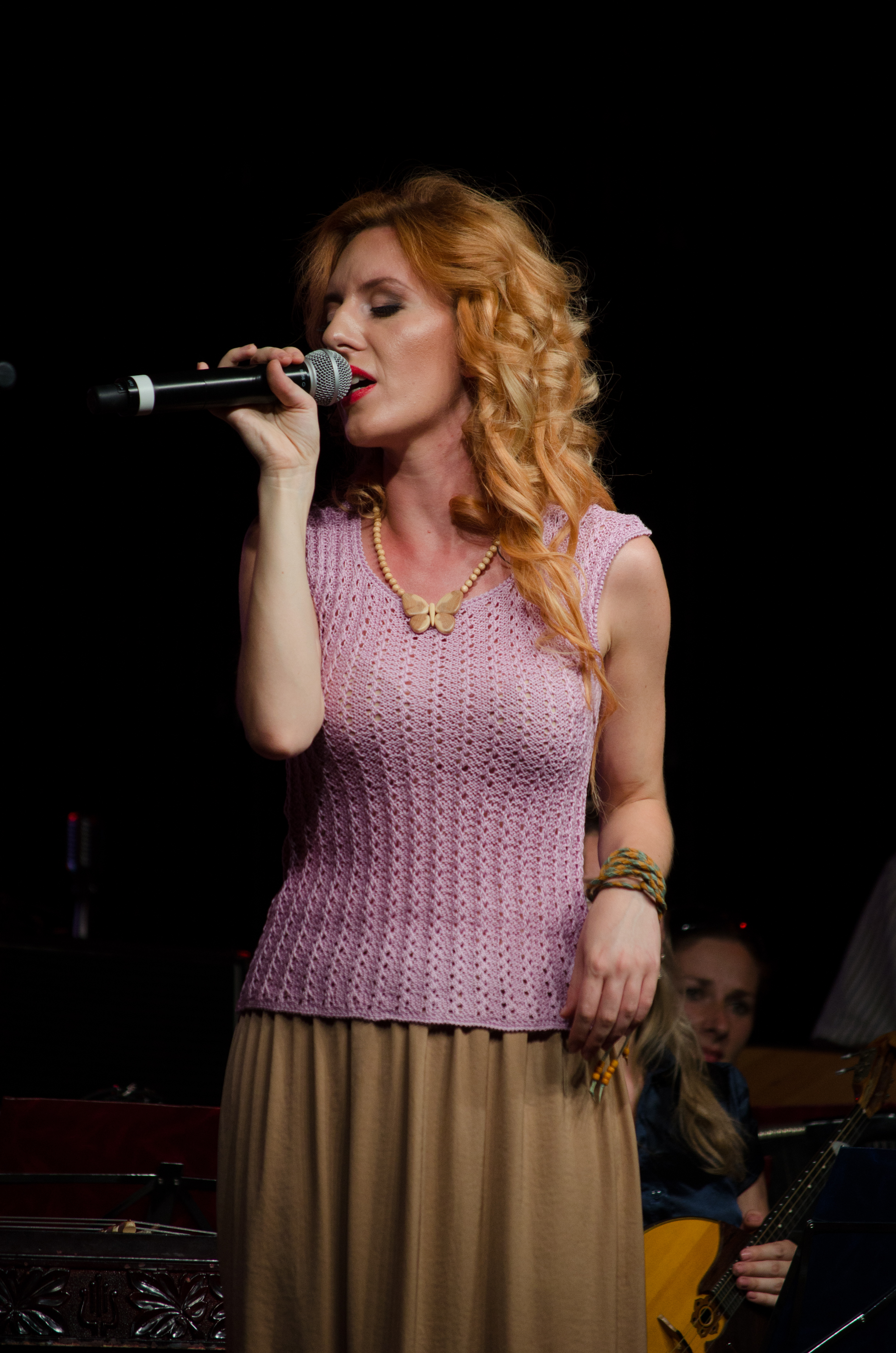 Koronatsiya Slova 2013 literature awards ceremony, Kiev, Ukraine